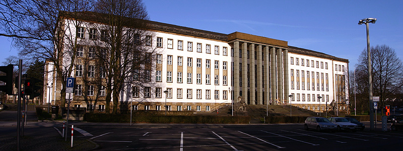 Federal Social Court